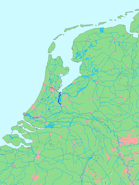 Location of a waterway (river/canal) in the Netherlends